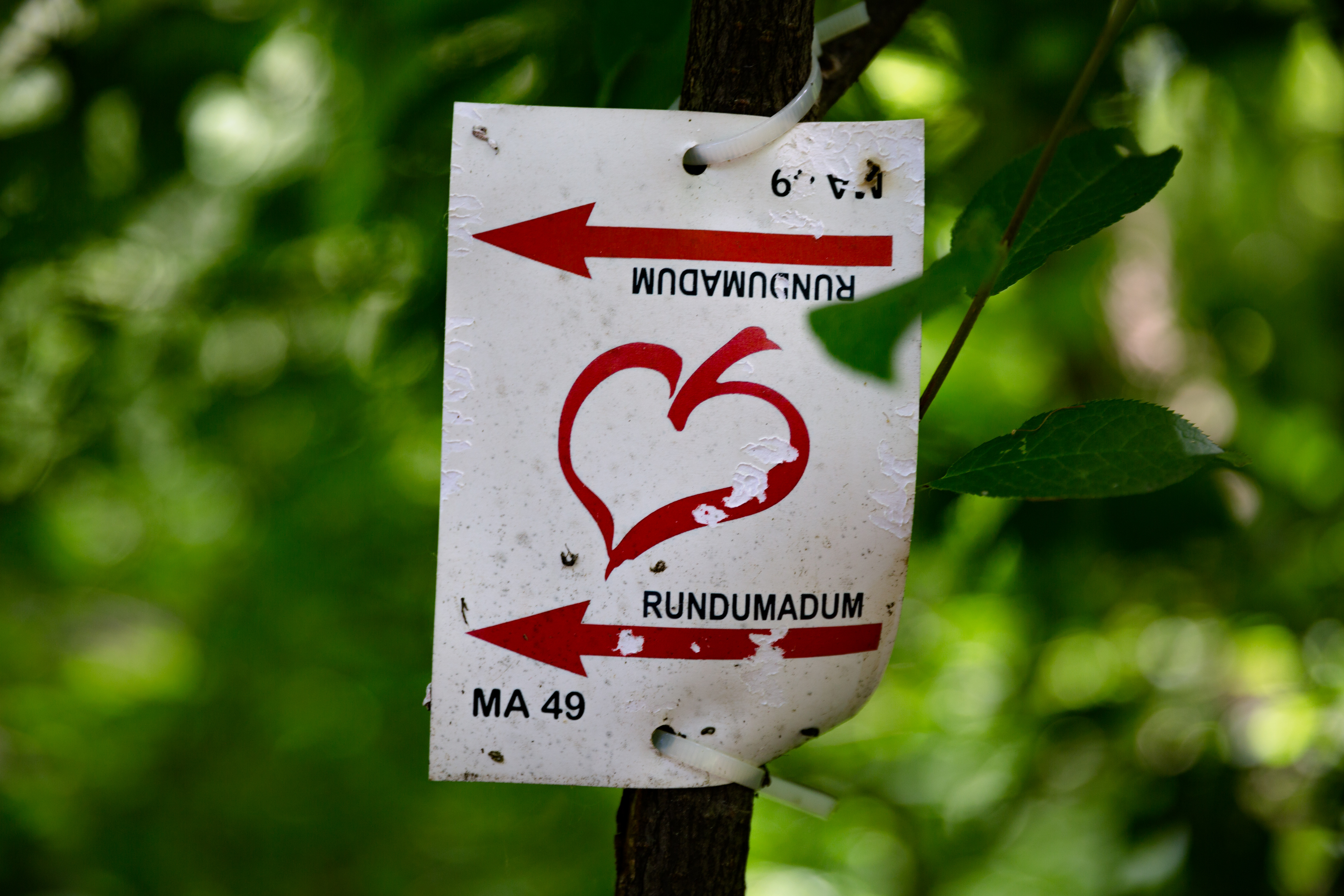 Lobau/Danube-Auen National Park, Vienna Austria). This file shows the National Park Donau-Auen in Austria. This media shows the nature reserve in Vienna with the ID 2.